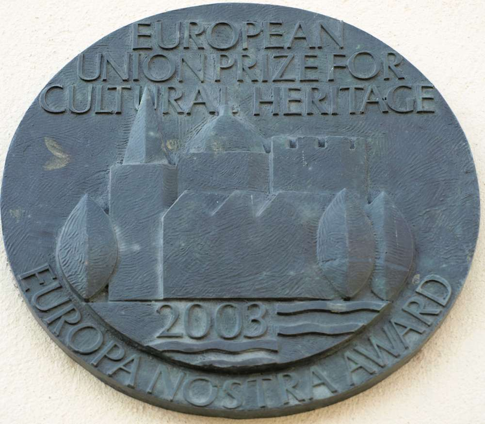 Inscription of the Europa-Nostra-price in the 12th district in Budapest (Városmajor utca 44.)